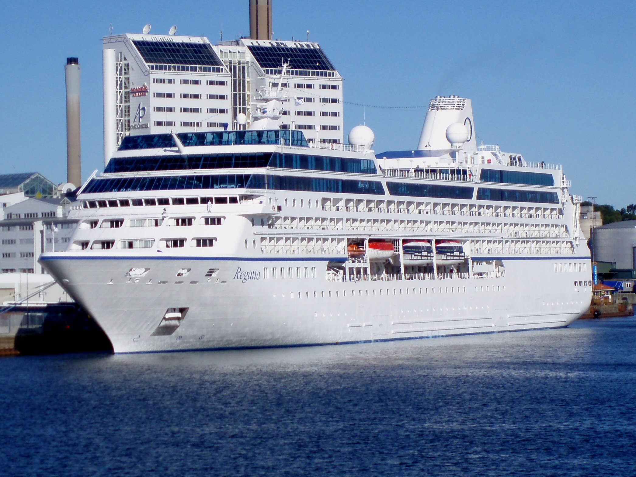 Oceania Cruises' M/S Regatta in Stockholm Frihamnen, in front of the Scandic Hotel Ariadne. IMO Number: 9156474 MMSI Number: 538001664 Callsign: V7DM3 Length: 180 m Beam: 24 m